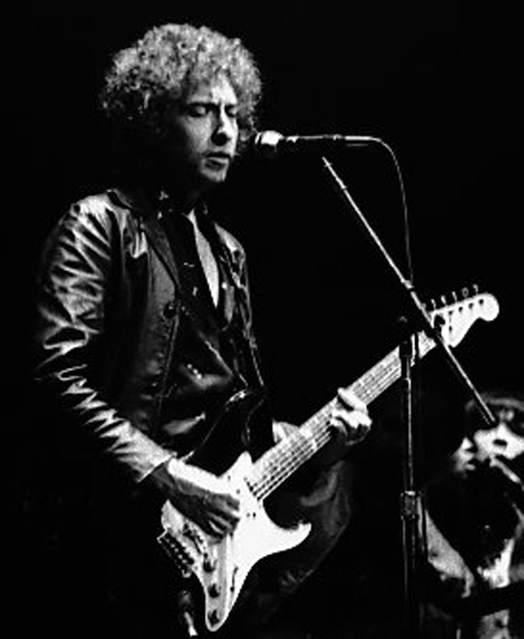 Bob Dylan Gospel Tour, Massey Hall, Toronto, April 18, 1980